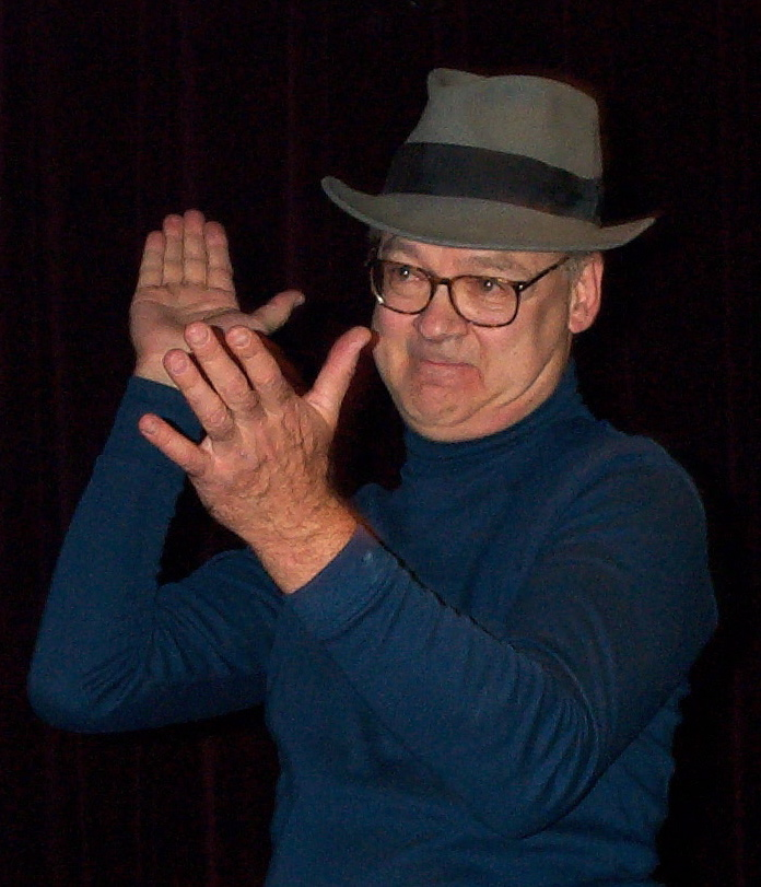 Tony Conrad at the DeStijl/Freedom From Festival 2003 in Minneapolis-Saint Paul, Minnesota, United States on 2003-10-04.